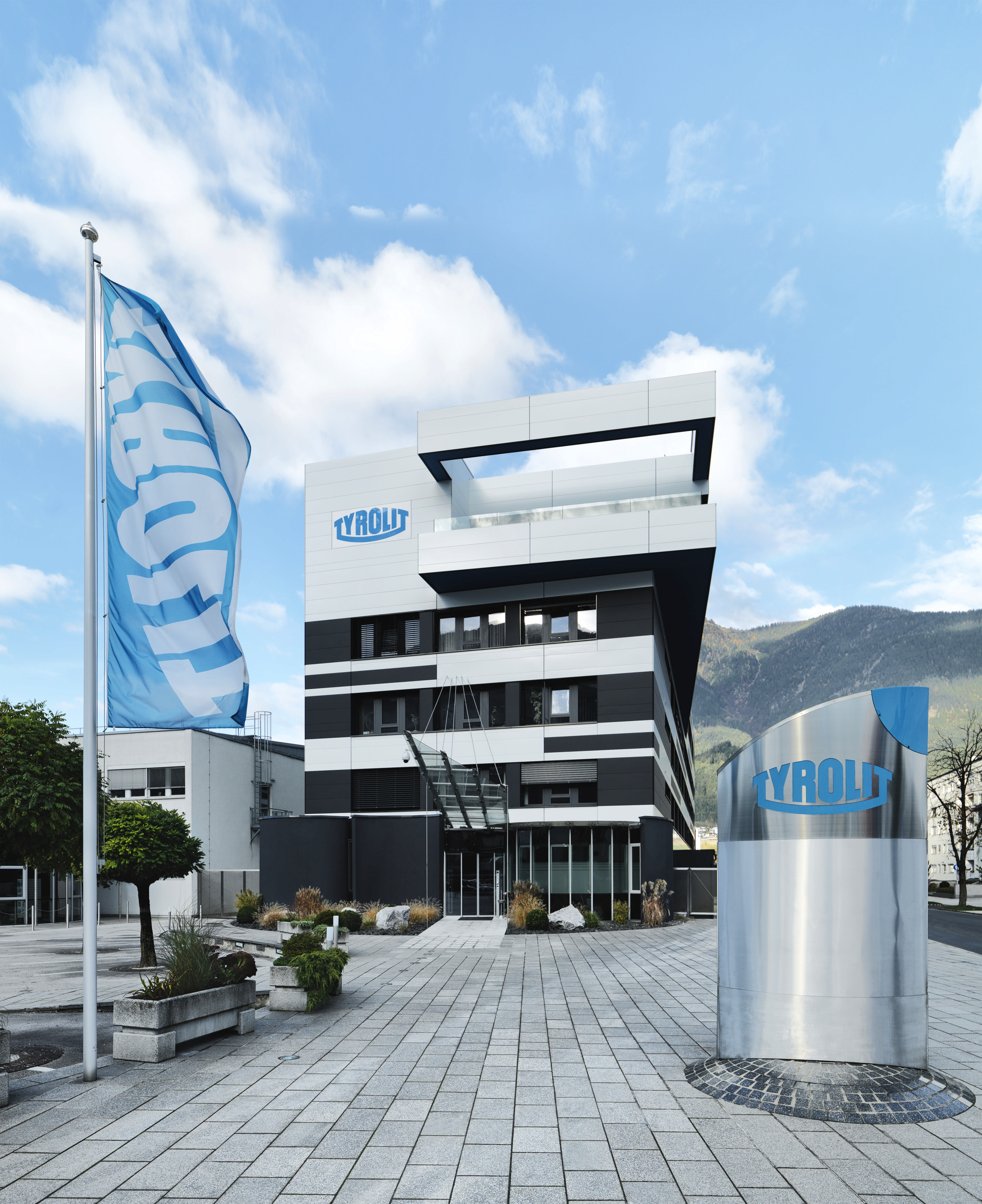 Image of the administration building at the global headquarter in Schwaz